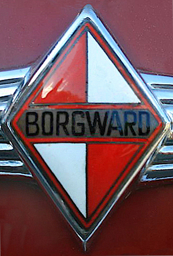 Borgward logo on a truck